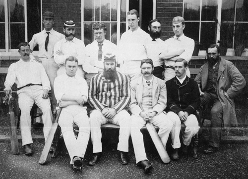 Gloucestershire County Cricket Club team in 1880, including the Grace brothers and Billy Midwinter.